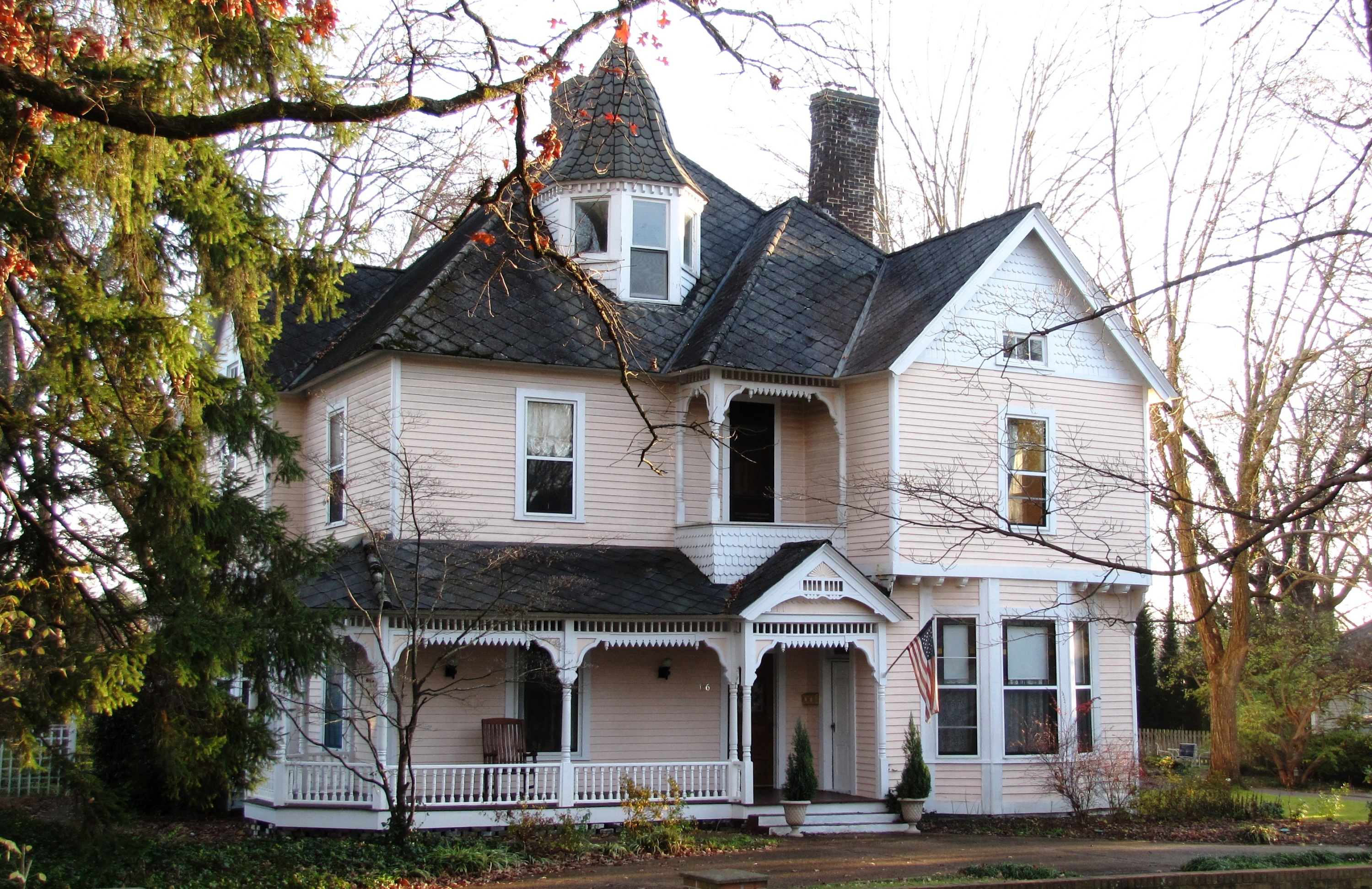 House at 116 Indiana Avenue in Maryville, Tennessee, USA. Designed by George Franklin Barber, this house is now a contributing property the NRHP-listed Indiana Avenue Historic District (College Hill).